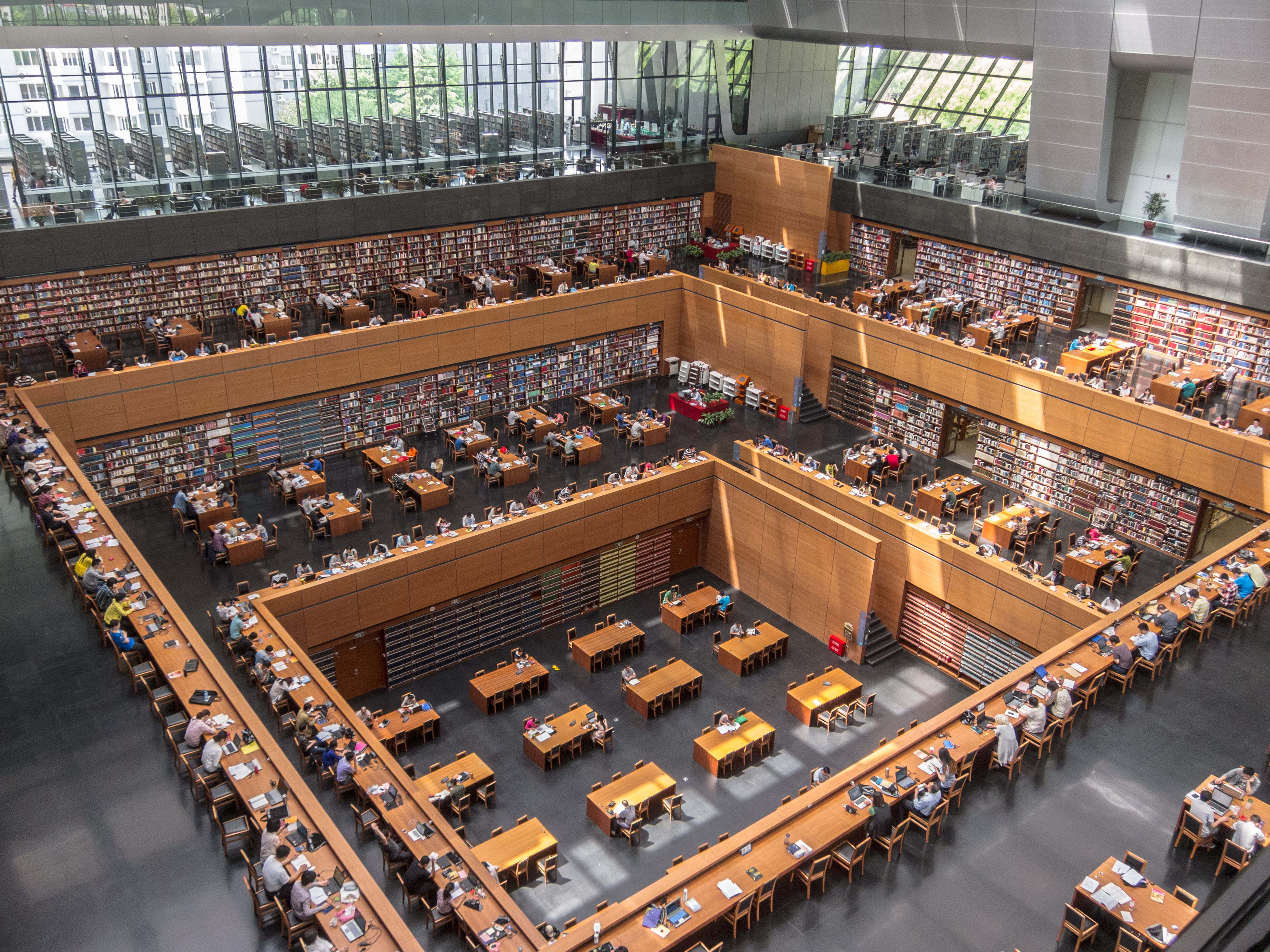 National Library of China abbreviated as NLC is the largest library of the world contains millions of books. These books are worldwide collection of Chinese historical background and documentation. The library is well-managed by the staff, it is clean, airy and very large. Architecture of the library is modern and classy that signifies the development of China, during the technical world. Sitting arrangement is well-arranged, despite being so popular, you will find the space to sit and read the books in peace.